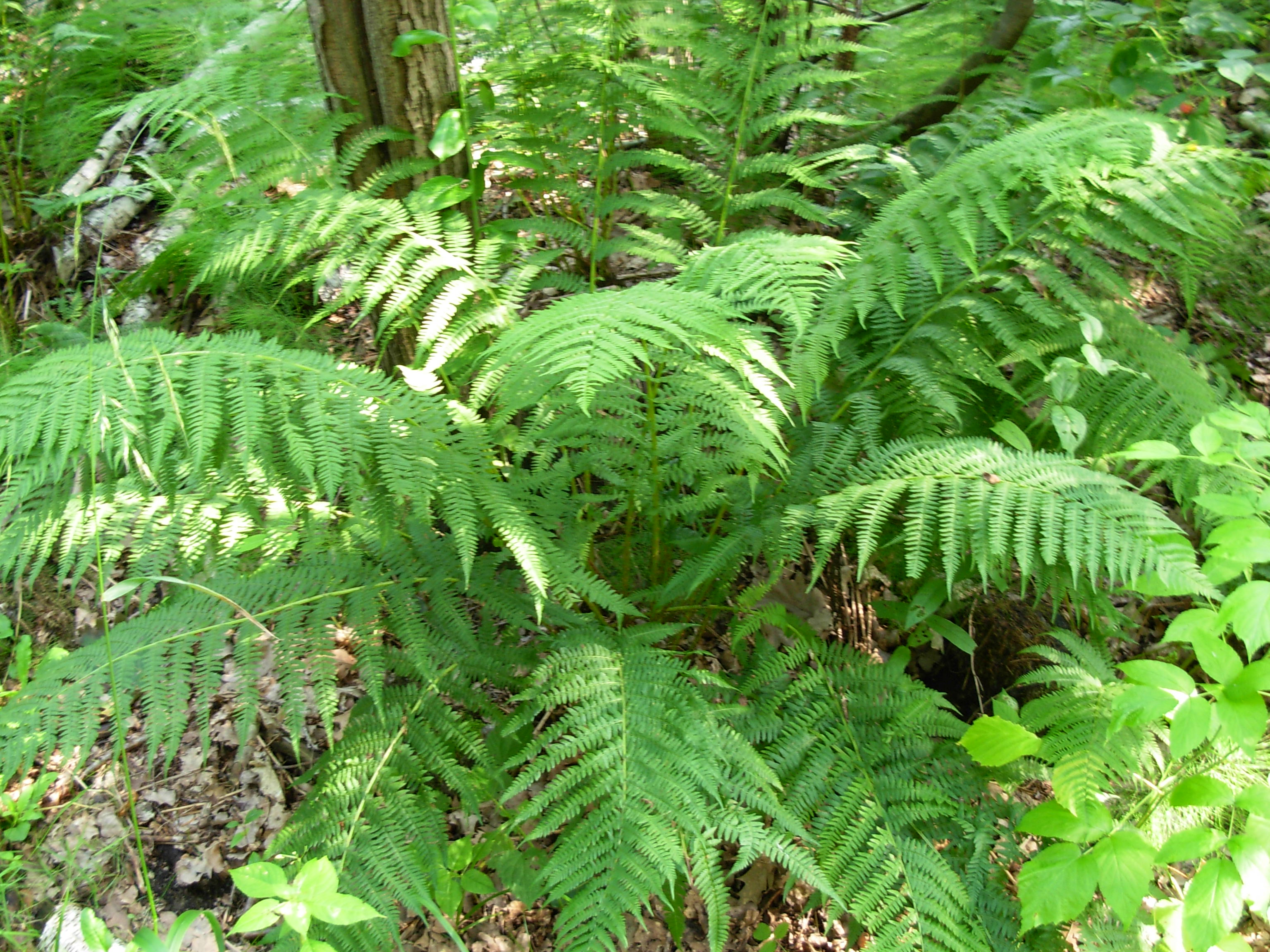 Athyrium filix-femina